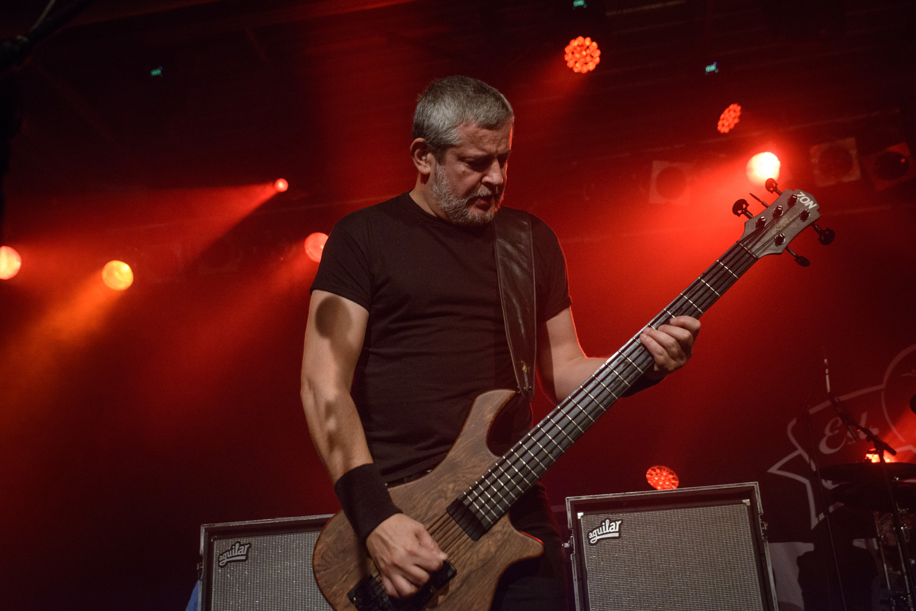 Sepultura Live @ Free & Easy Festival 2015